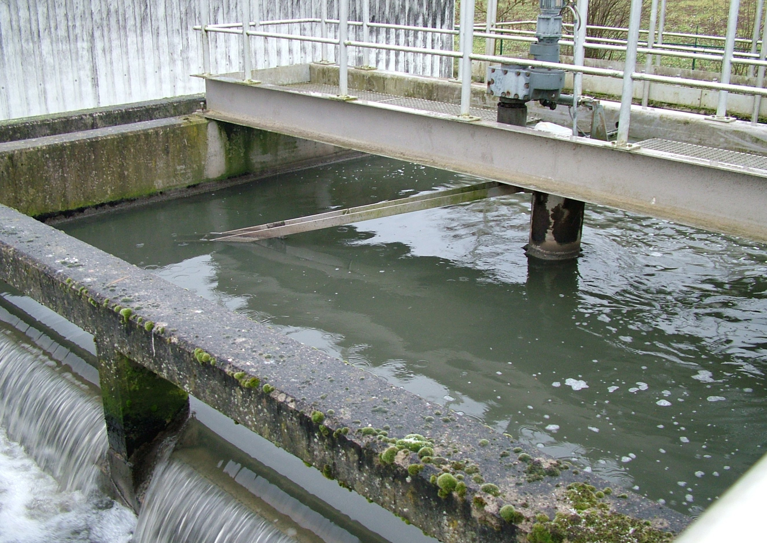 Picture of a Dorr sandtrap at the Aquafin waste water treatment plant of Huldenberg. A Dorr sandtrap is a common construction for the removal of sand in the influent of waste water treatment plants.